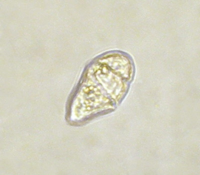 North-West Black Sea, coastal waters, at a depth of 0.5 metre